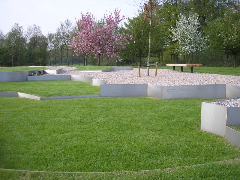 National monument Tuin van Bezinning in Warnsveld, a memorial to police killed on duty.